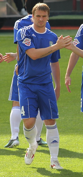 Sergei Kornilenko